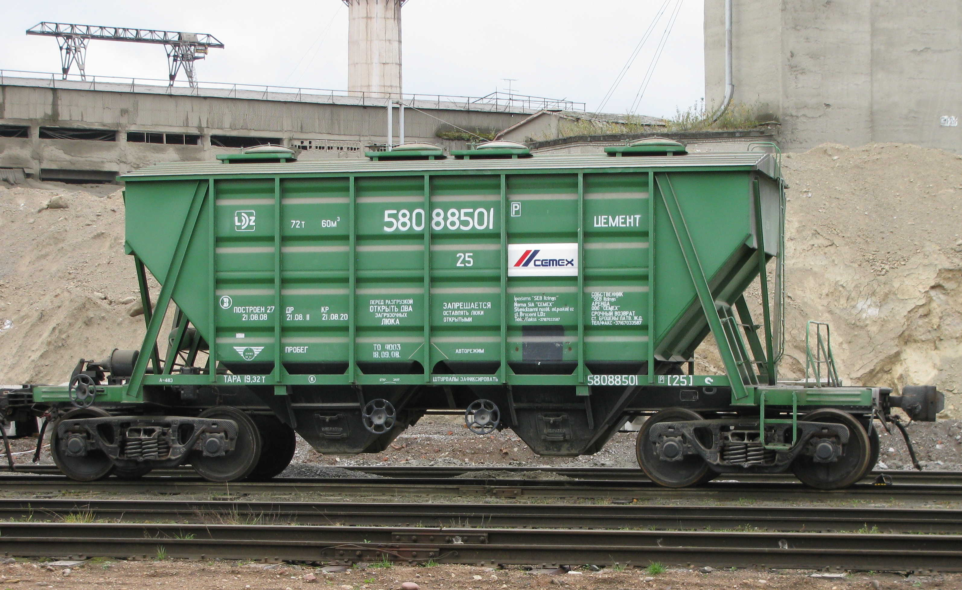 CEMEX Latvia covered hopper car in Broceni